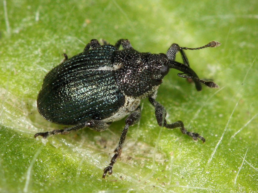 Ceutorhynchus americanus weevil at Bells Bend Park in Nashville, Tennessee